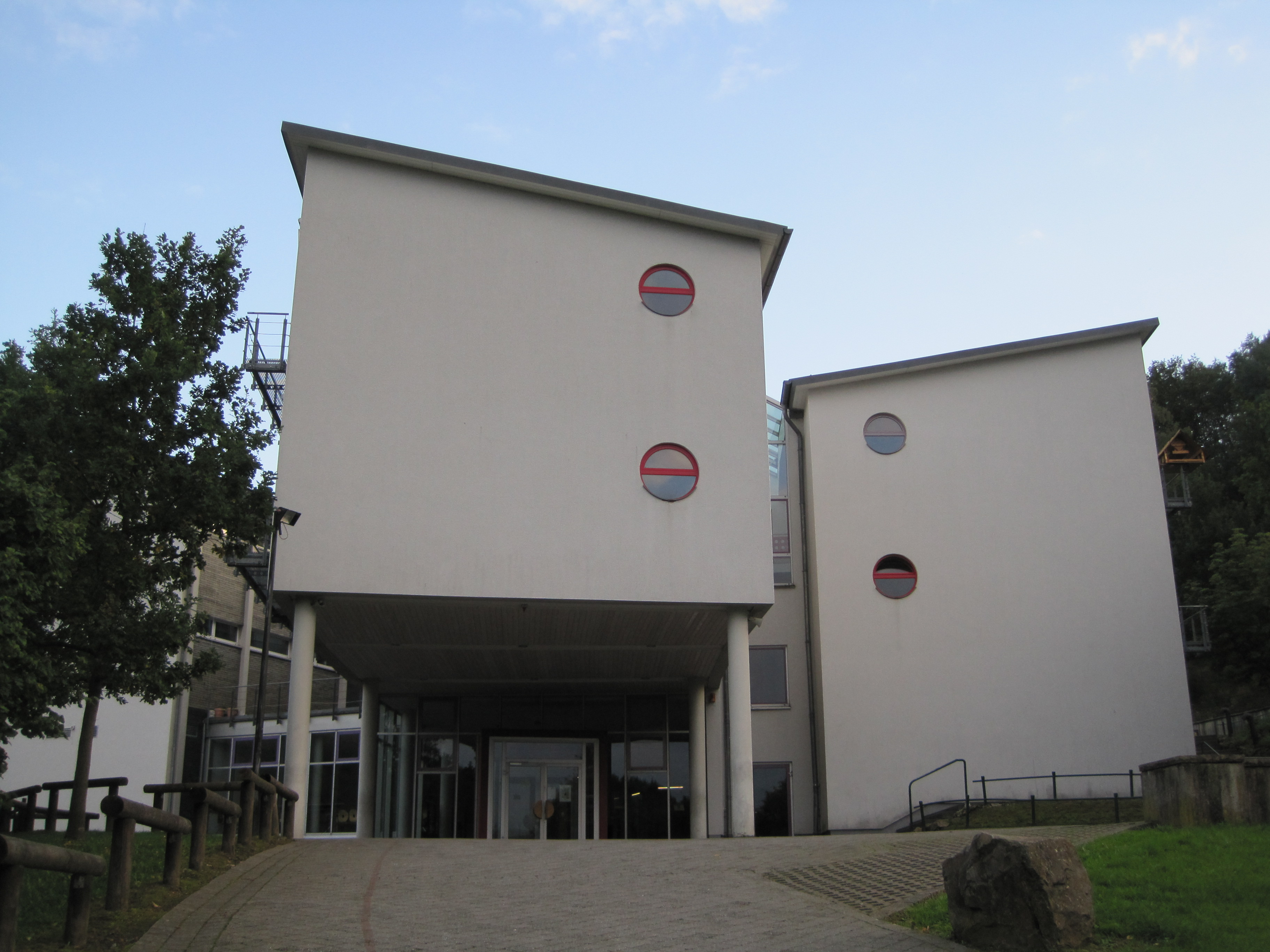 Lennestadt secondary school, Lennestadt, Germany check usage